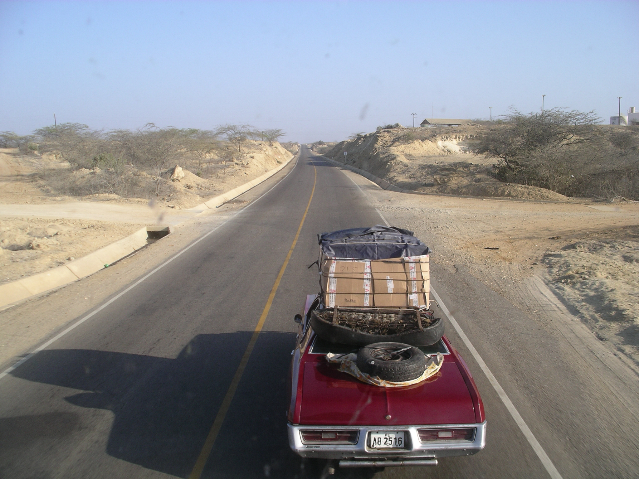 The Panamarican Highway in northern Peru, between Sullana and Talara. Like in Cuba, old American cars are still quite common.